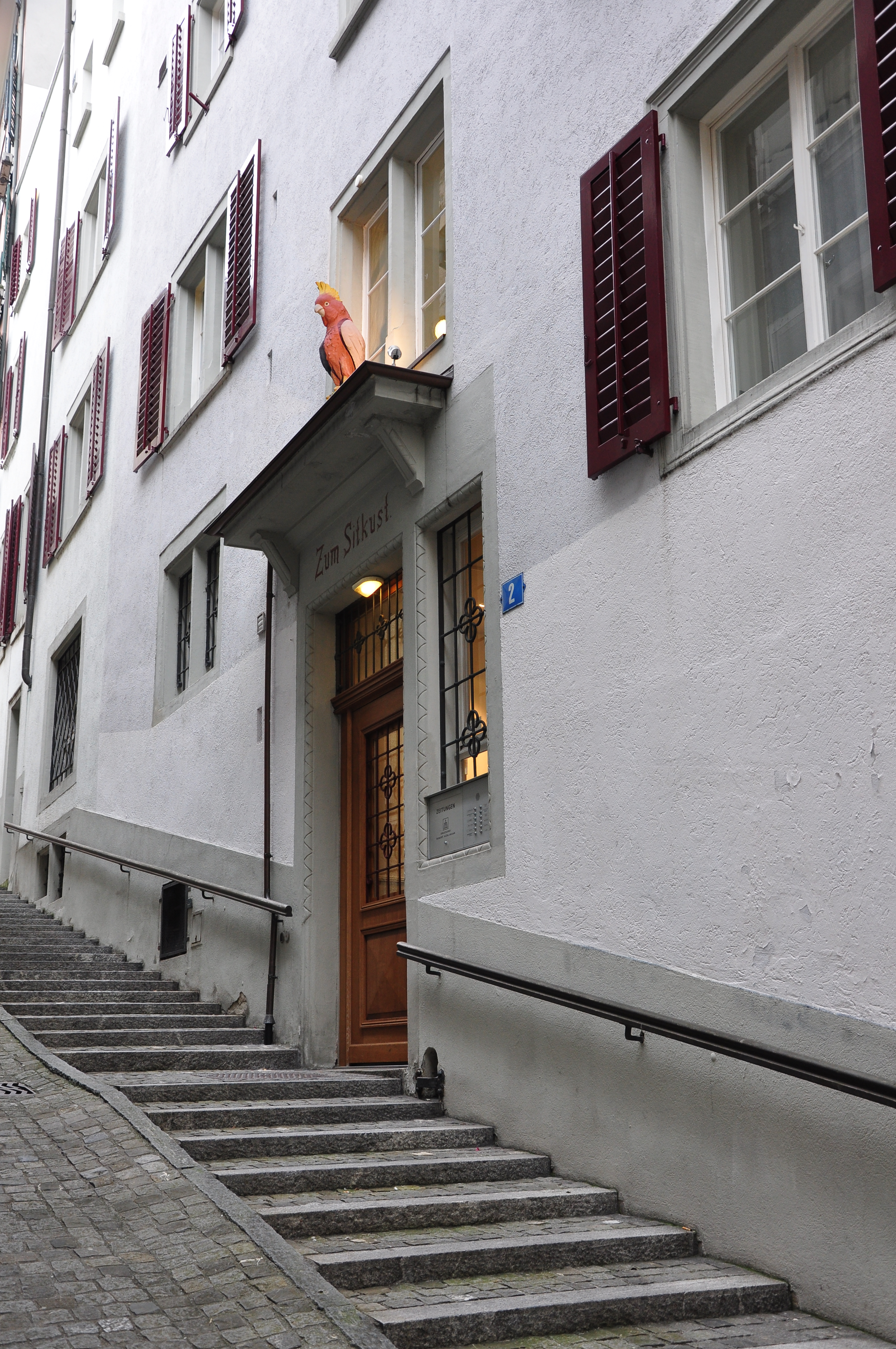 Trittligasse in Zürich (Switzerland) : «Haus zum Sitkust», former home of Hans Waldmann (* 1435; † 1489).